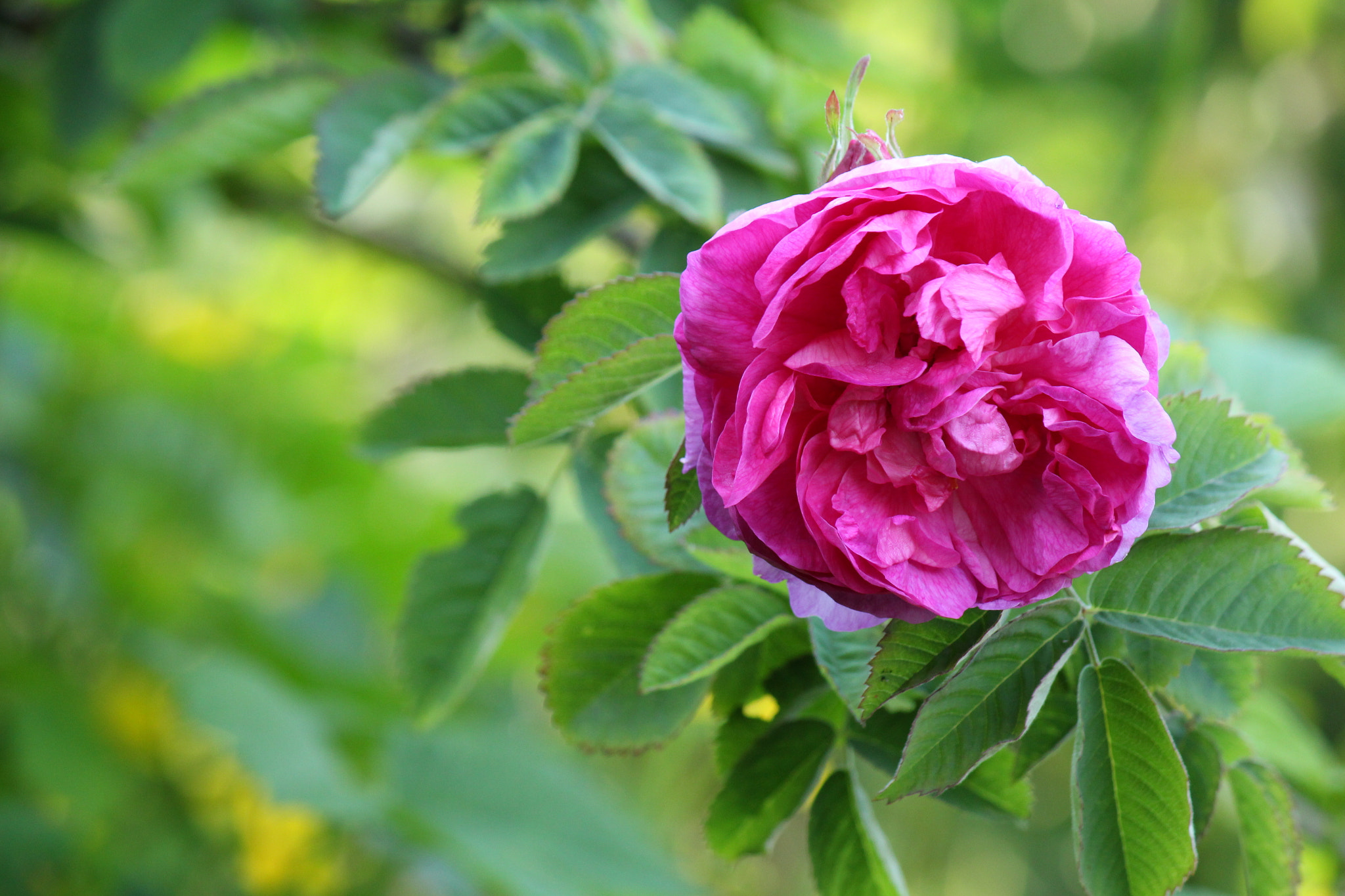 500px provided description: Damask Rose [#flowers ,#spring ,#color ,#sun ,#light ,#beautiful ,#green ,#pink ,#garden ,#oil ,#perfume ,#fragrance ,#rose water]